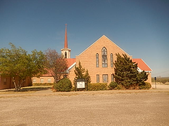 I took photo of First United Methodist Church in McCamey, TX, with Nikon camera.